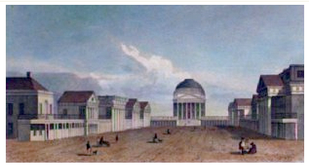 University of Virginia, Charlottesville. teel engraving, 3 3/4x 5 5.8. Published by H. L. Hinton & Simpkin and Marshall. Special Collections, Edwin M. Betts Collection